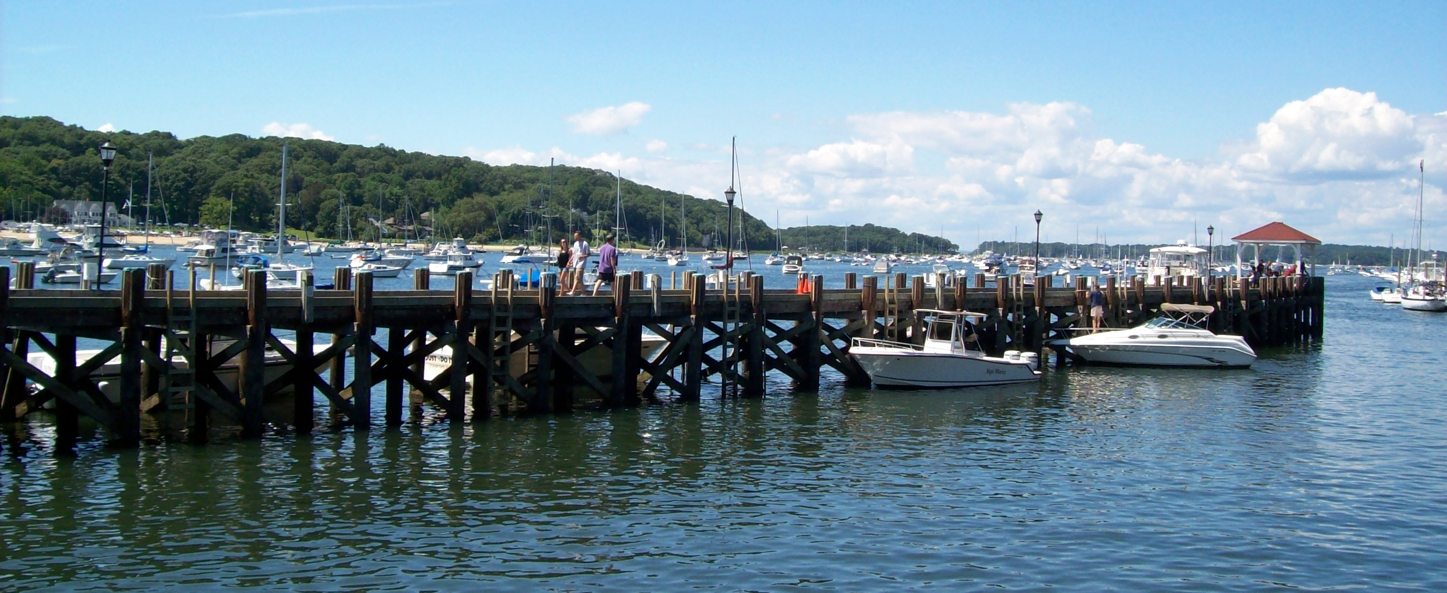 Dock in Northport Harbor, beside Northport Village Park in Northport, New York YOU CATCH 60 CRABS THERE IN LIKE 1 HOUR